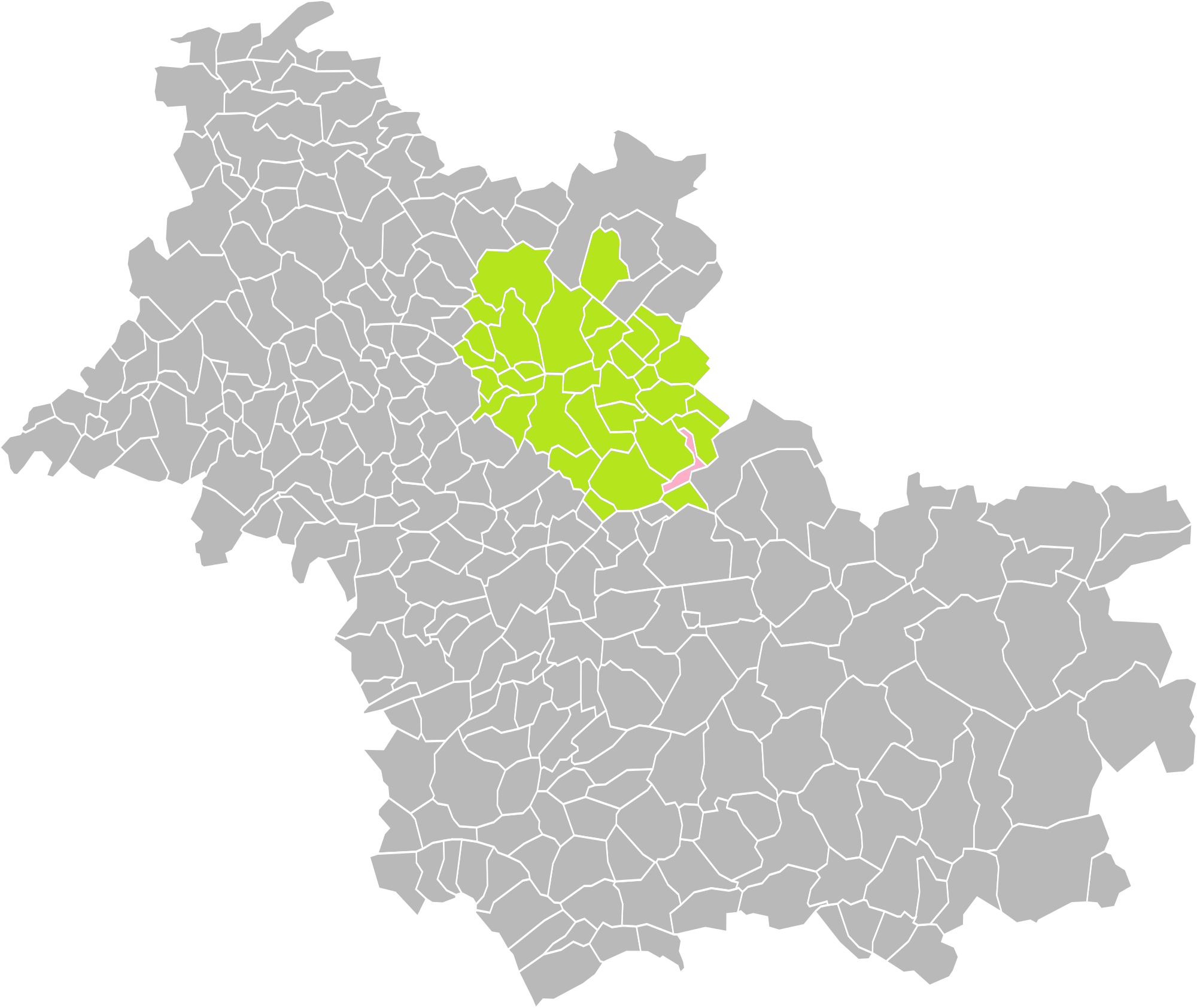 Location of the commune of Courbouzon in the Communauté de communes de la Beauce-Val de Loire (Loir-et-Cher)